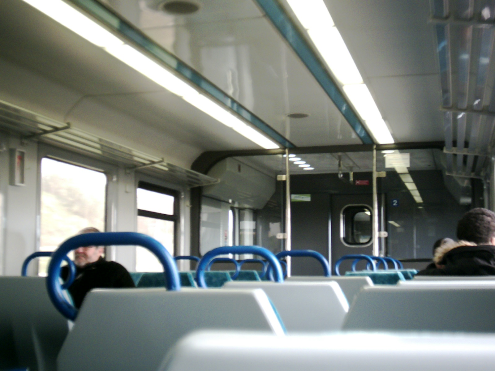 Inside a regional train of Portugal. Everything's decorated in blue. There weren't many people inside when we left Cacém, but the train fills up a lot inside Lisbon. I believe people usually ride this train to reach the North, but I might be wrong.